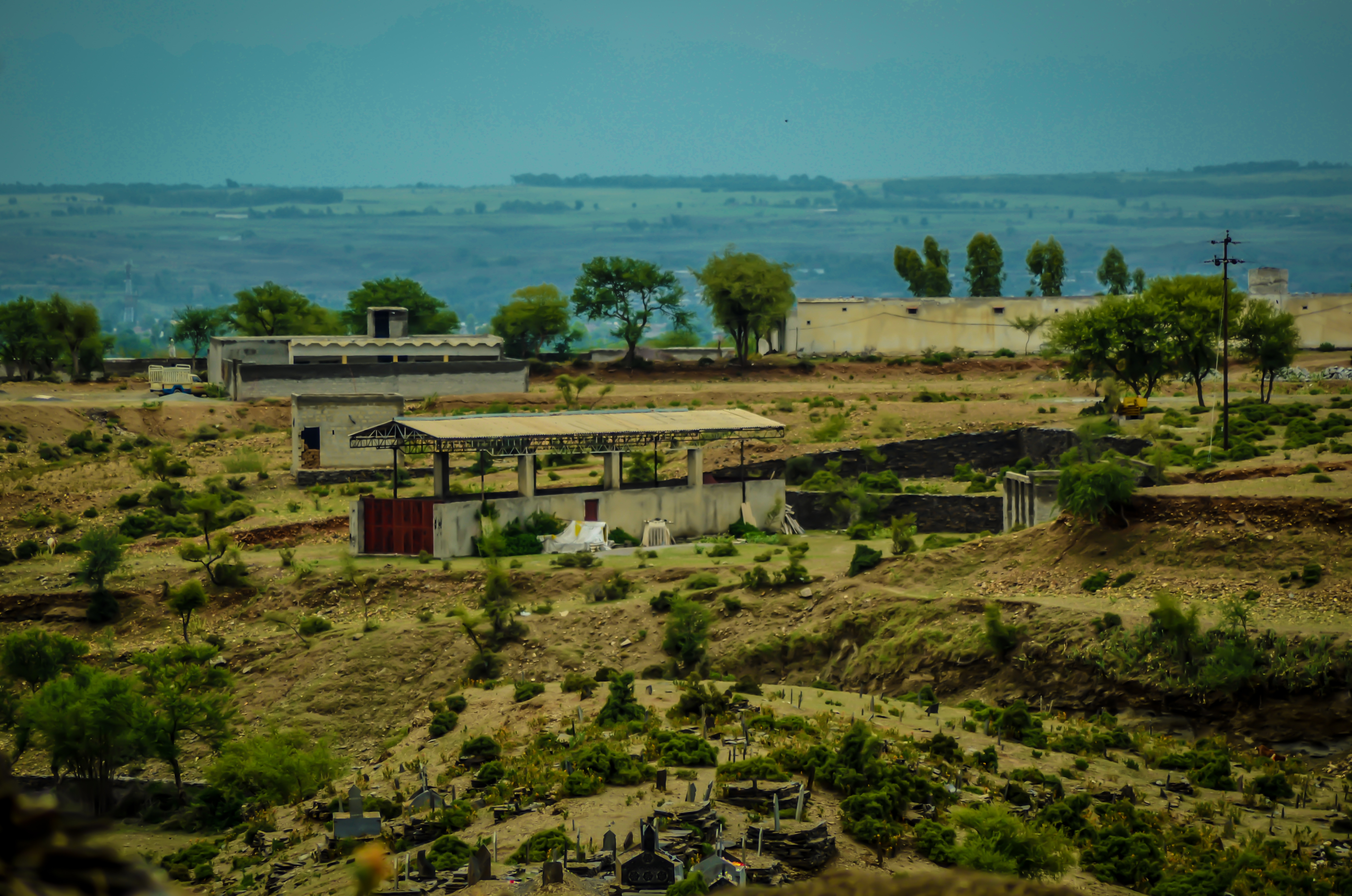 Khushal Khan Khattak Akora